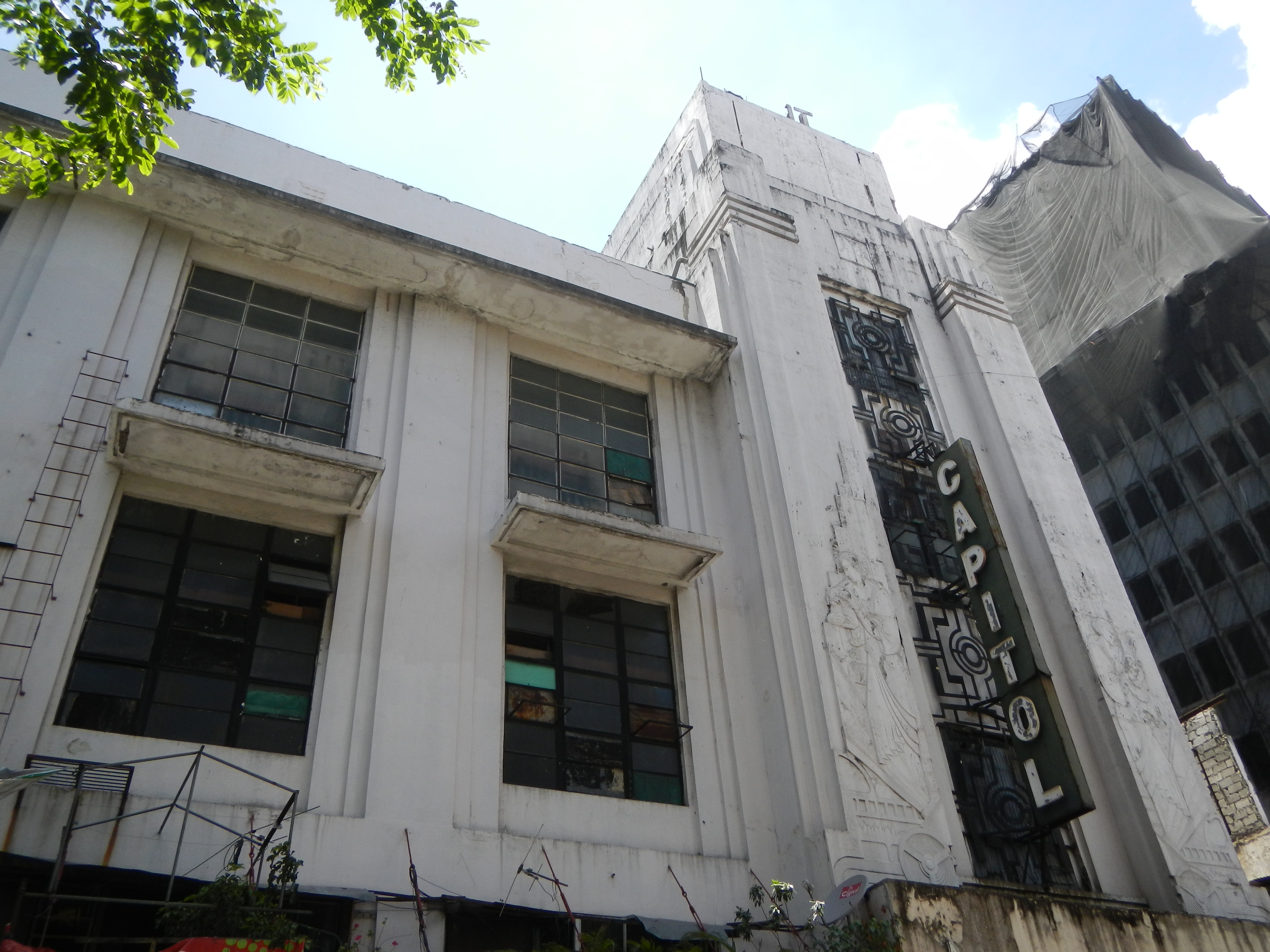 Escolta Street corner Tomas Pinpin Street City of Manila, Santa Cruz, Manila and Binondo, List of Cultural Properties of the Philippines in Metro Manila, List of Cultural Properties of Santa Cruz Manila International Peace Center, Escolta Twin Towers, Mariano Uy Chaco Building, Calvo Building, since 1938 , 266 Escolta, El Hogar Filipino Building Capitol Theater (Manila) Pan Pacific Industrial Sales Co. Inc. (PanPISCo.) Building, Philippine National Bank Building, Manila Chinatown Welcome Arch, along Pasig River upon Jones Bridge, Binondo, Manila Chinatown Welcome Arch, Load limit 20 Tons Sta. 2+208 in front of the Old Filipino-Chinese Friendship Arch FFCCCI along Quintin Paredes Street corner San Vicente Street in Plaza Cervantes, Land Management Bureau Philippines (Binondo office).